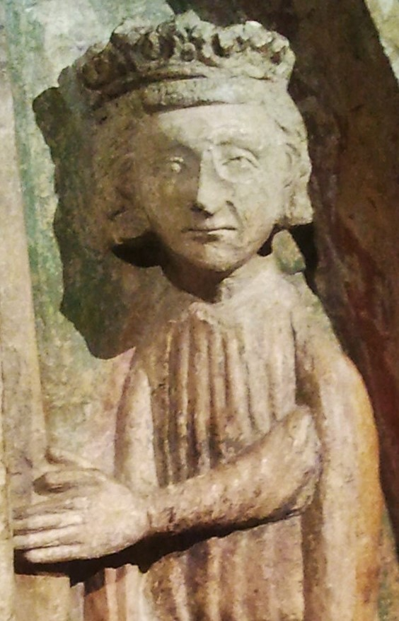 King Premzsl Ottokar I of Bohemia on a relief from the St George Convent in the Prague Castle (1220s).